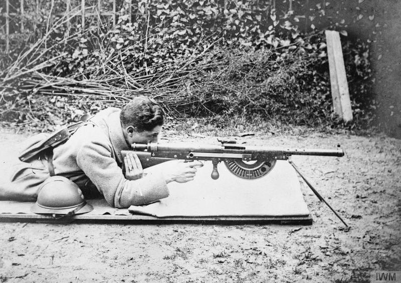 The French Army on the Western Front, 1914-1918 A French soldier firing a Chauchat 8mm automatic rifle (1915 model) in a shooting range.